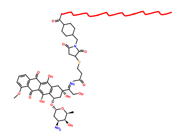 ELP Application